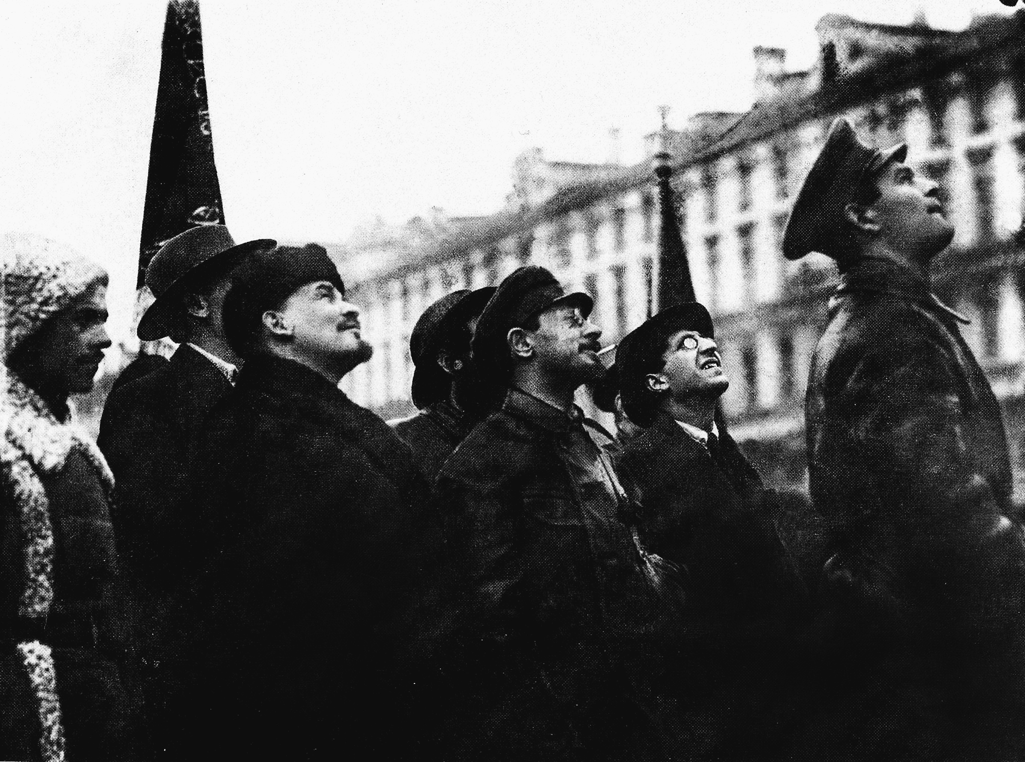 Politician of the USSR. Yakov Sverdlov (1885-1919)